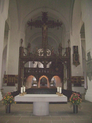 View of the interior of the cathedral of Lübeck